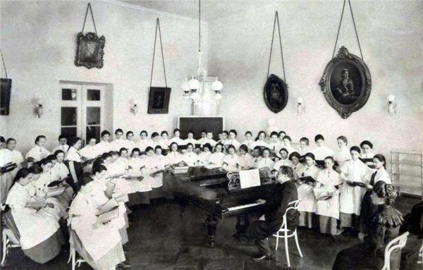 Smolny institute: singing lesson